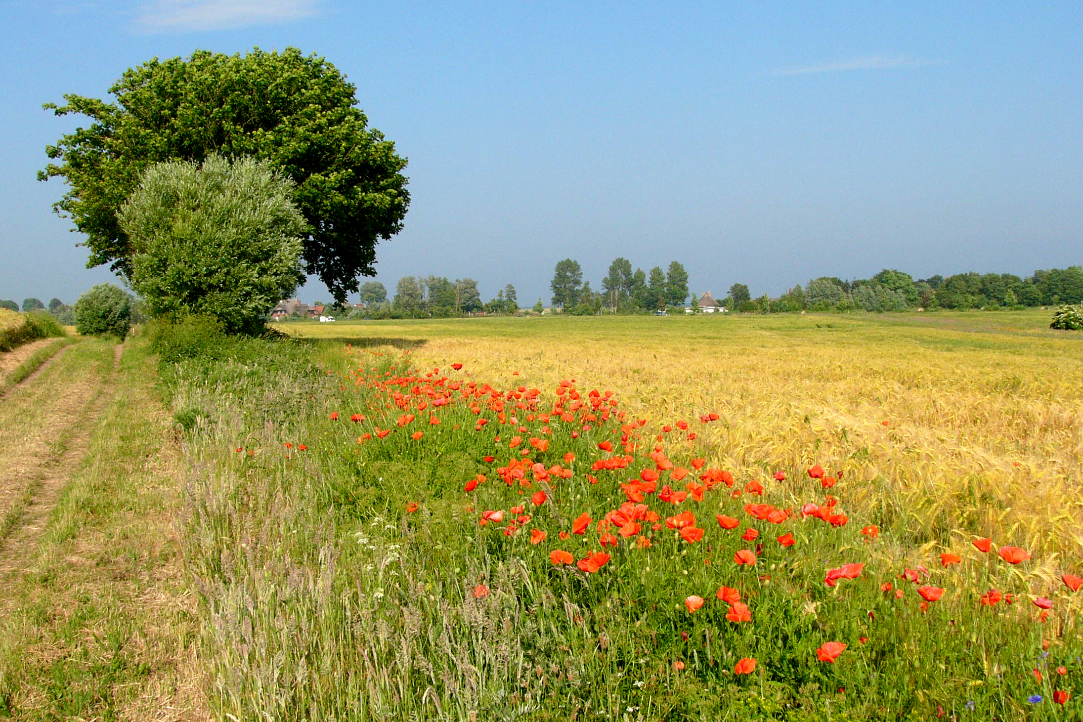 Cornfield on Fischland, Mecklenburg-Vorpommern, Germany